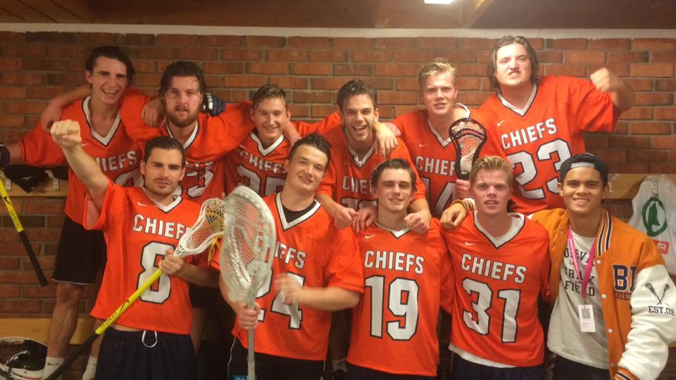 Norwegian Lacrosse team BI Chiefs' rooster for Bergen Challenge 2014